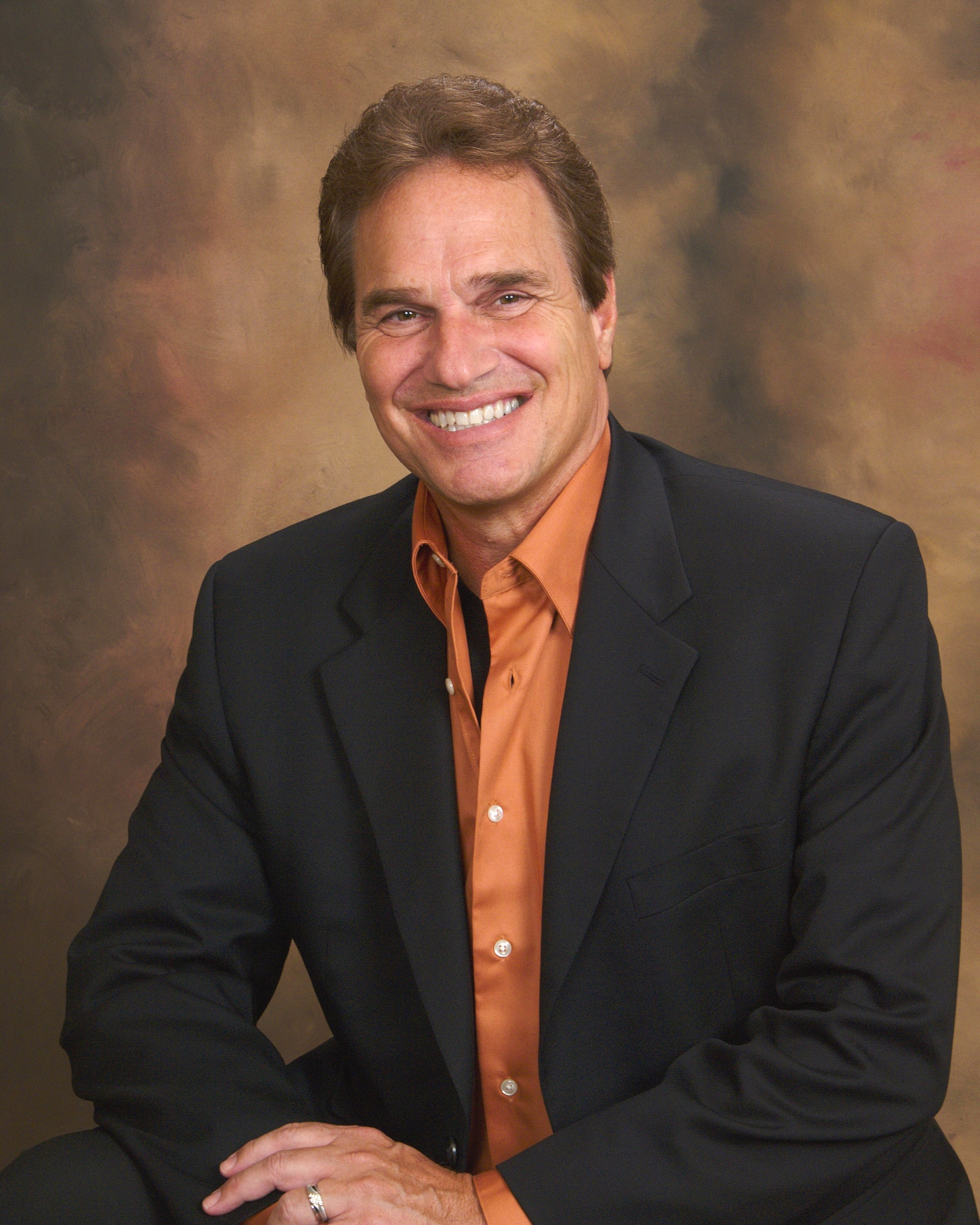 recent photo